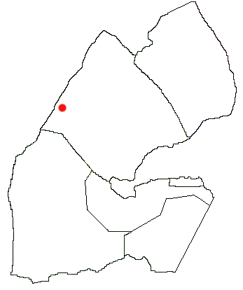 Balho, Djibouti Location Map.